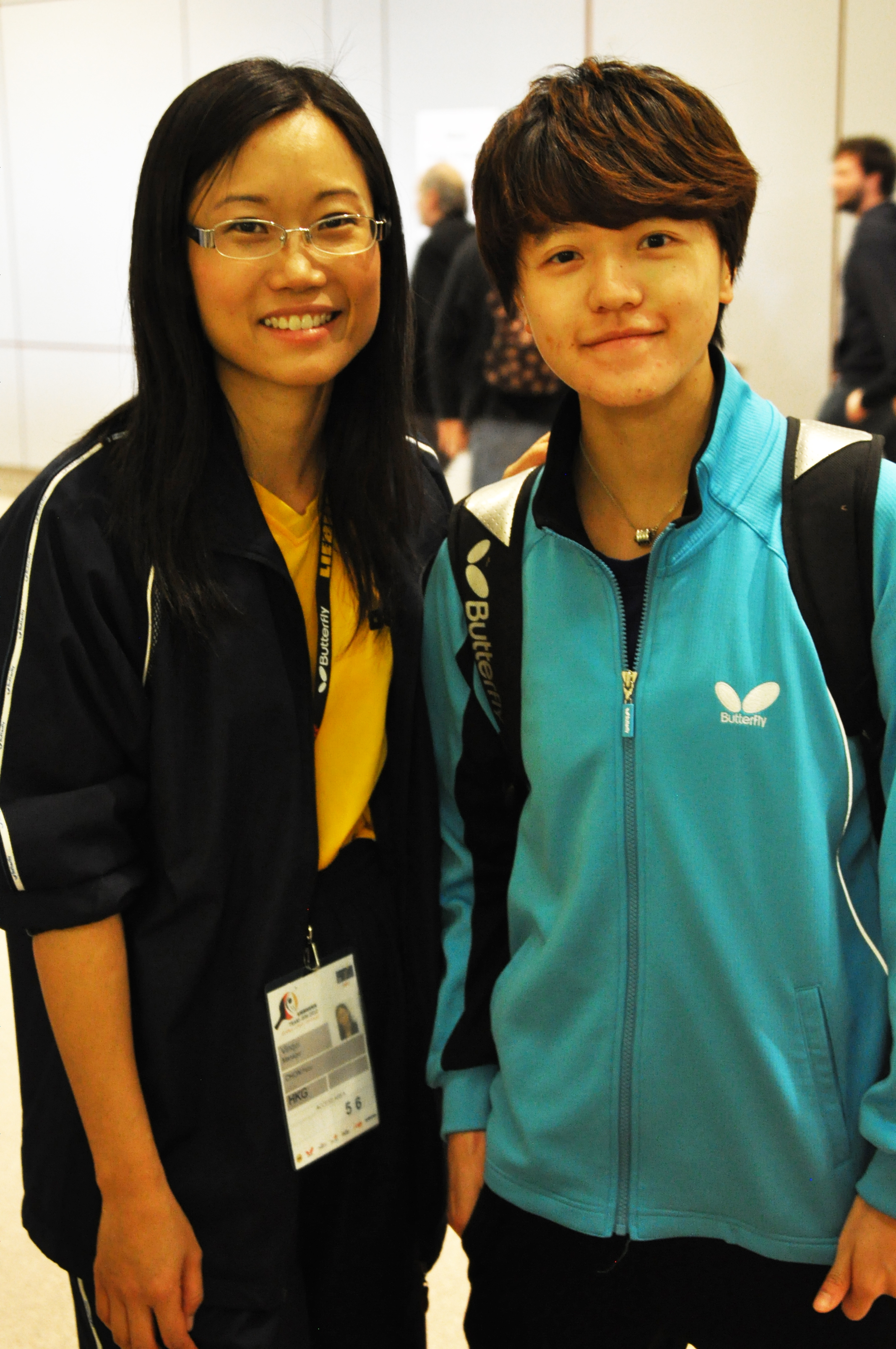 Vinqui's Parry with Chinese Taipei's Huang Yi-Hua.